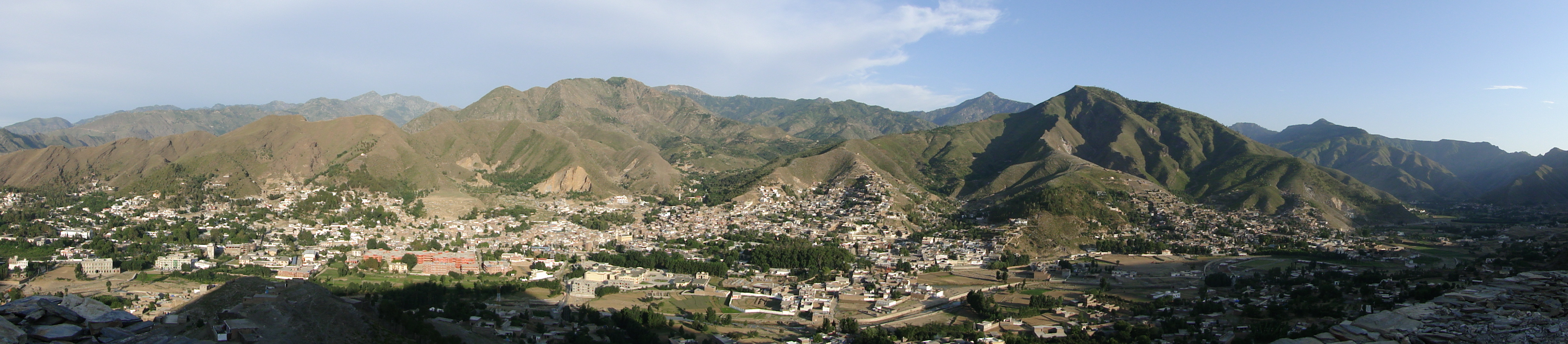 Saidu Sharif in Panorama view